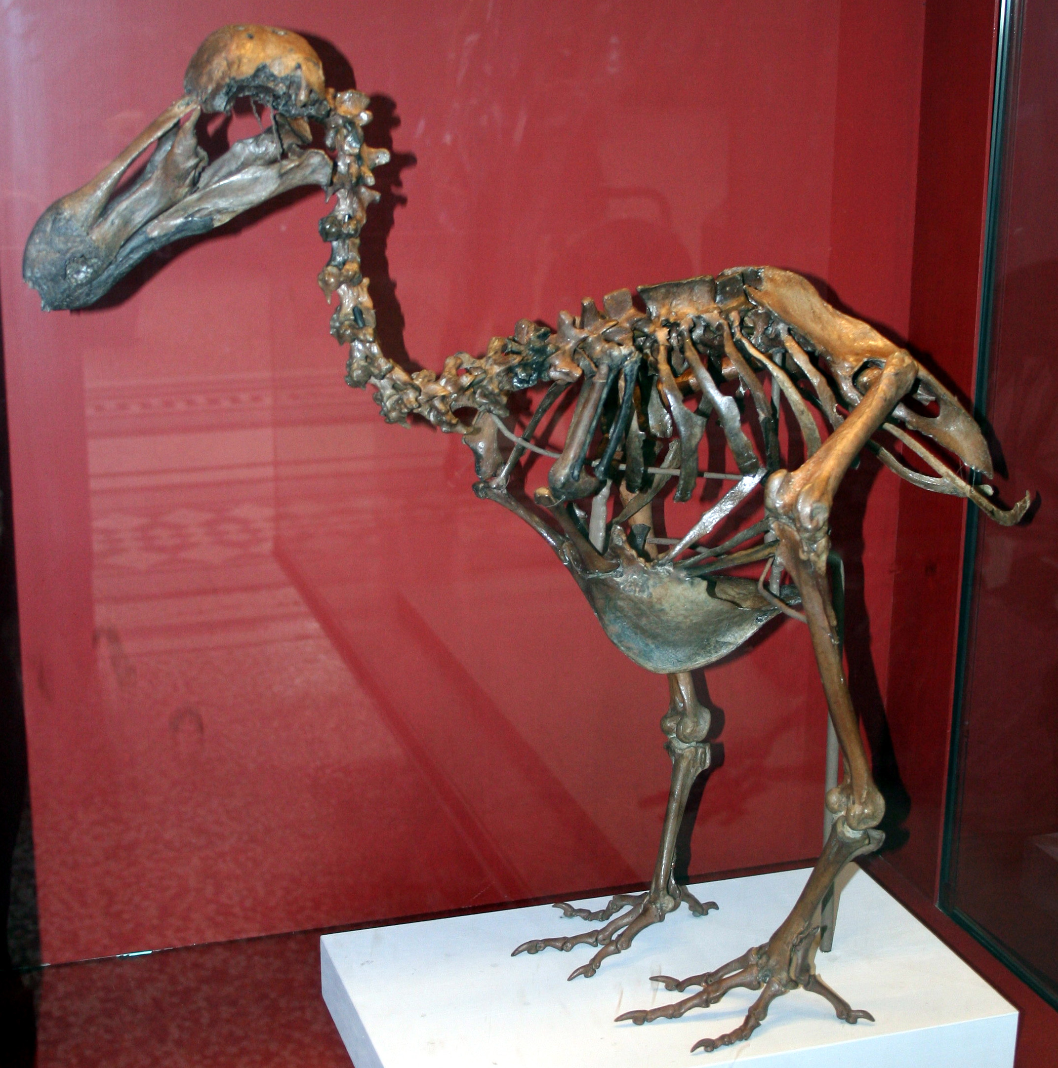 Dodo-Skeleton (Raphus cucullatus), Natural History Museum, London, England